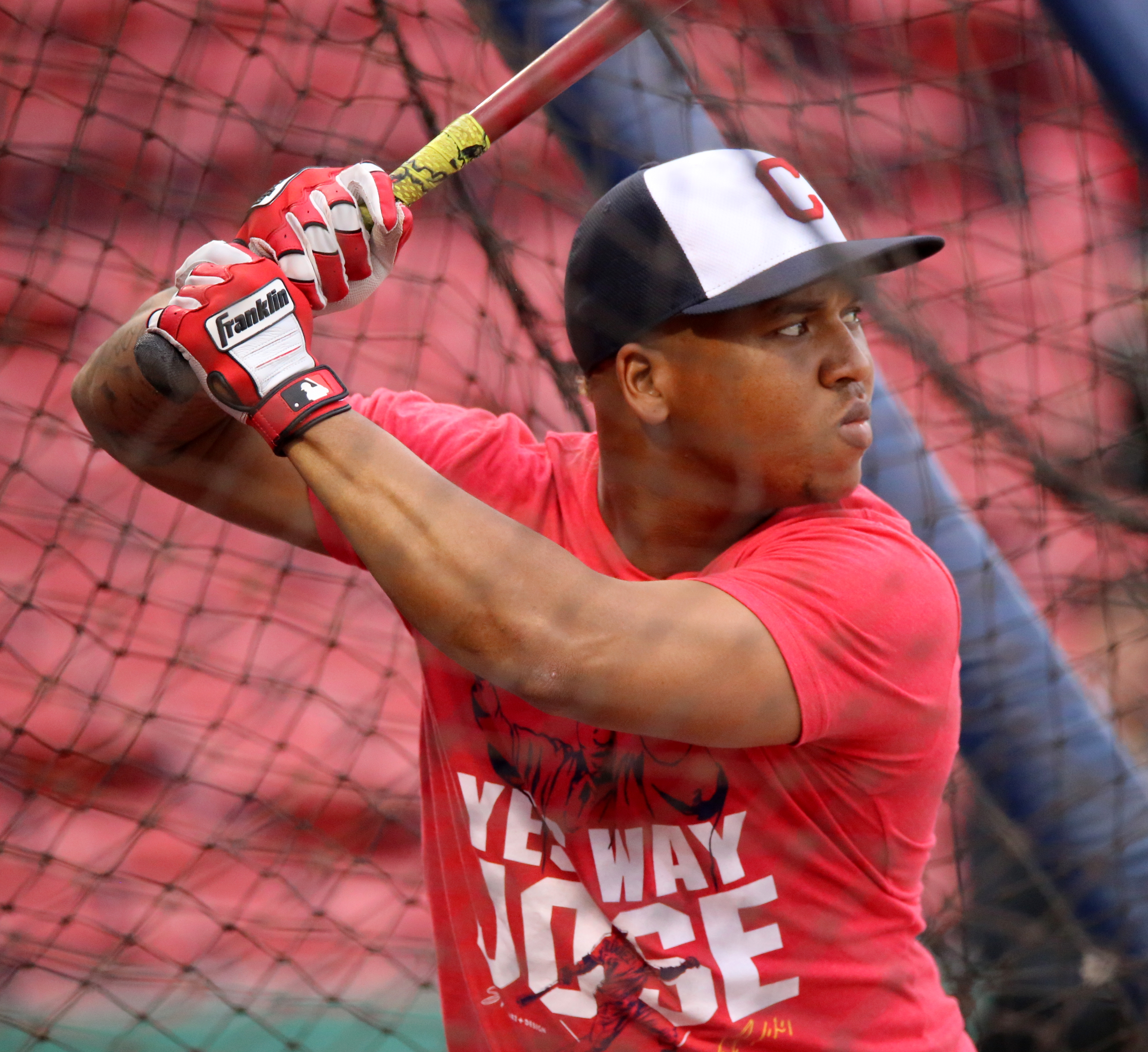 Indians third baseman Jose Ramirez takes batting practice at Fenway Park.